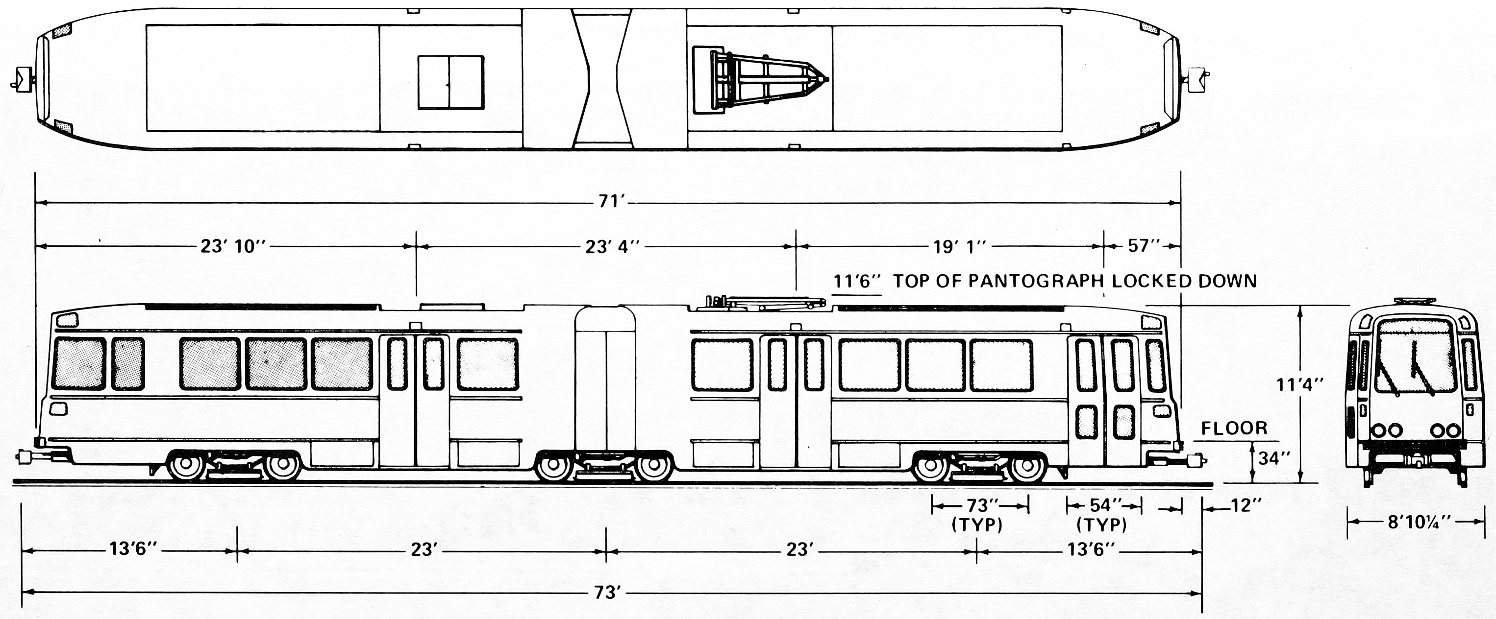 Original caption: "Figure 1-5: SLRV Design and Performance Characteristics". The illustration is accompanied by a table of statistics.